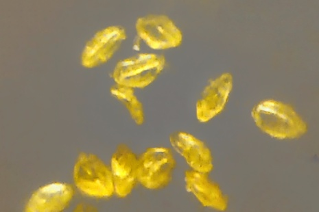 Pollens of Tamarind